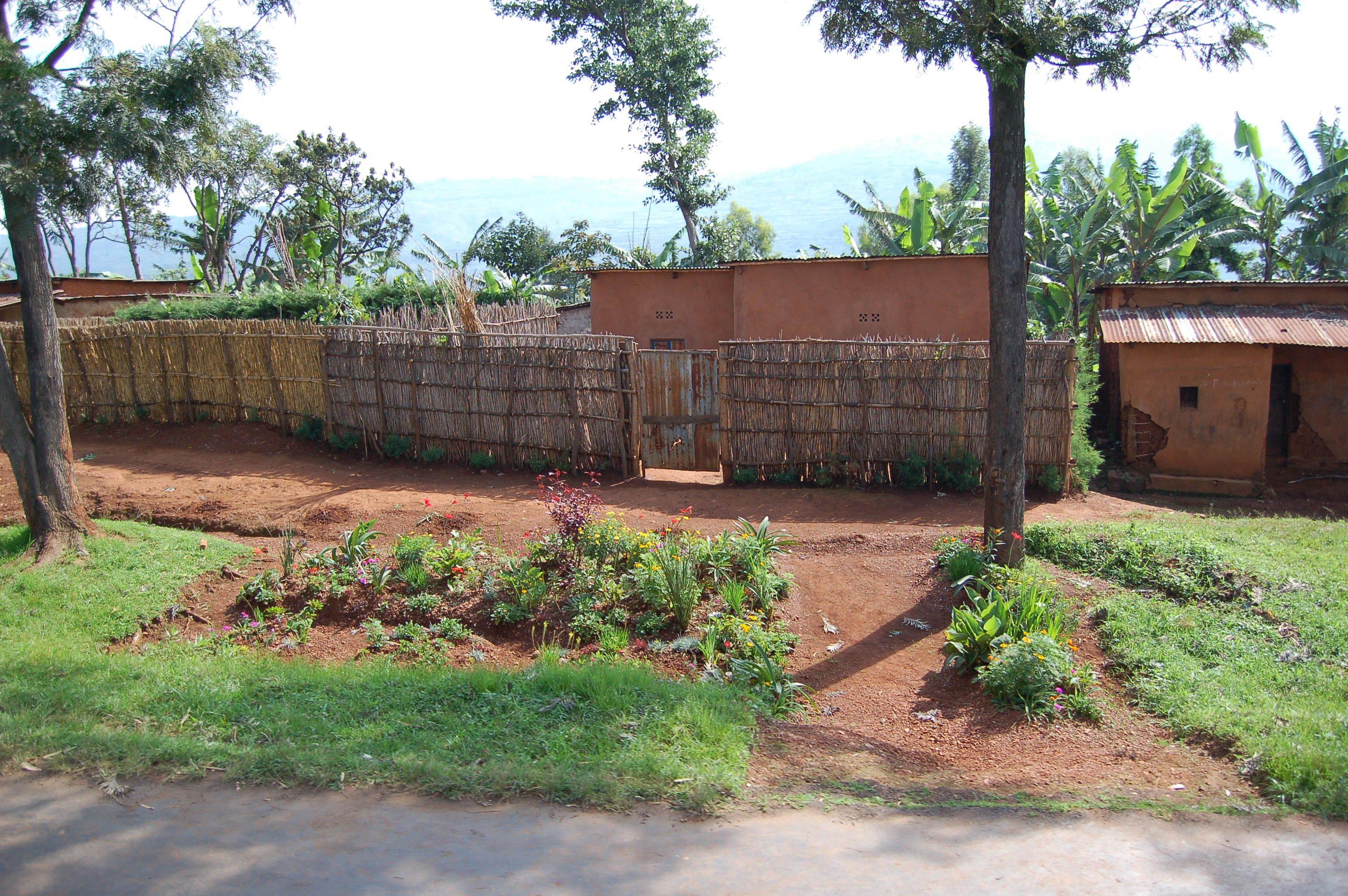 Country houses in Rwanda